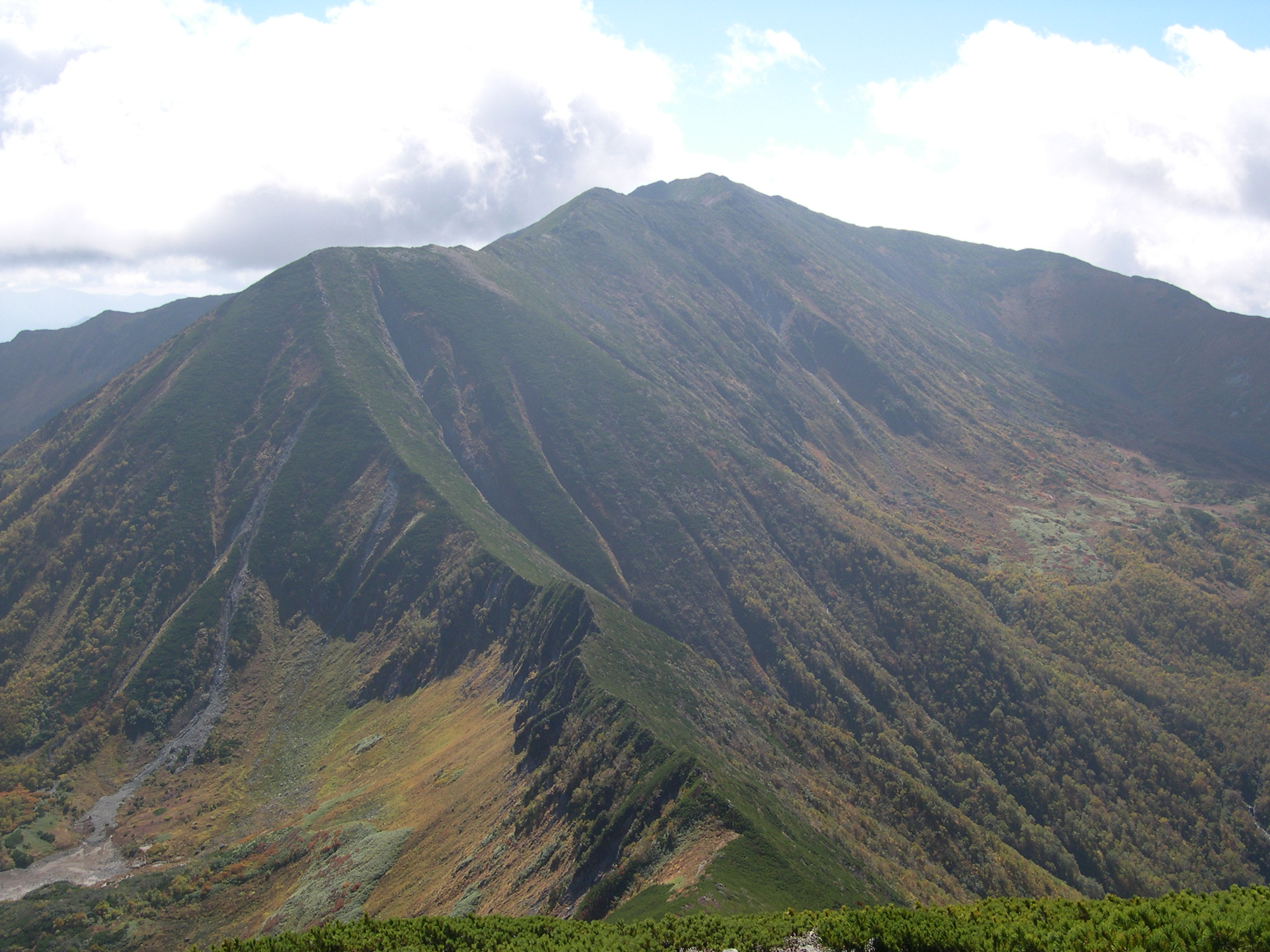 Mount Poroshiri and Nanatsunuma Cirque seen from Mount Tottabetsu